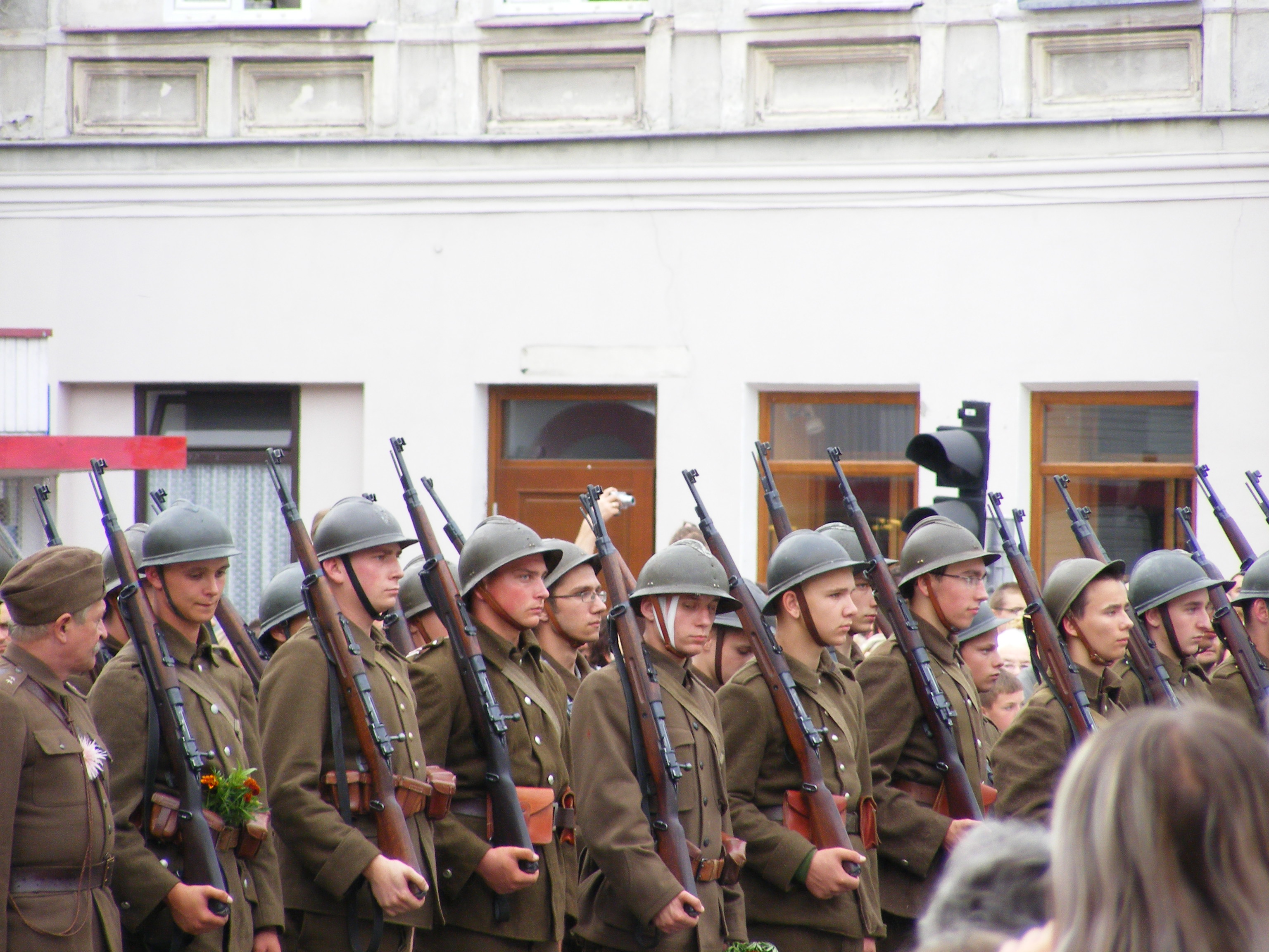 90th anniversary of liberation of Suwałki - historical reenactment: 41st Suwałki Infantry Regiment in Suwałki on August 24th, 1919.